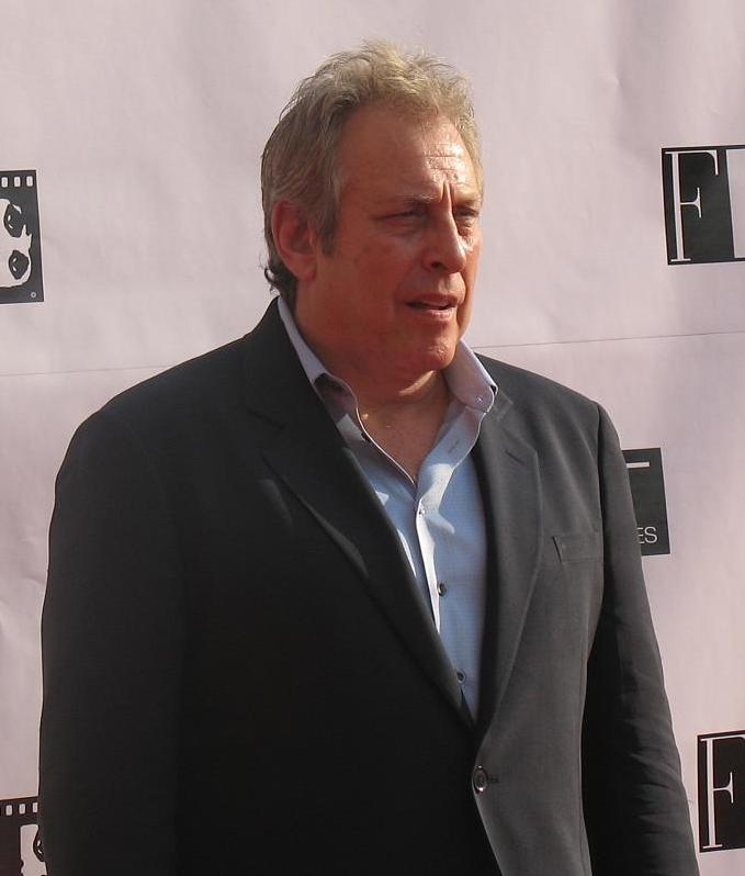 Producer Charles Roven